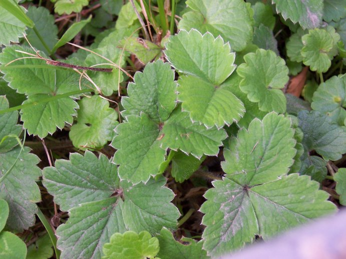 Barren Strawberry, non-flowering plant. Note that the leaves look almost exactly like strawberry leaves (as do the flowers). The fruits, however, are small, dry, inedible nuts. Photographed near Bensberg (Germany).